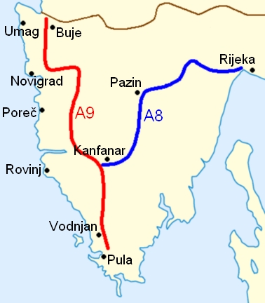 Istrian Y - map